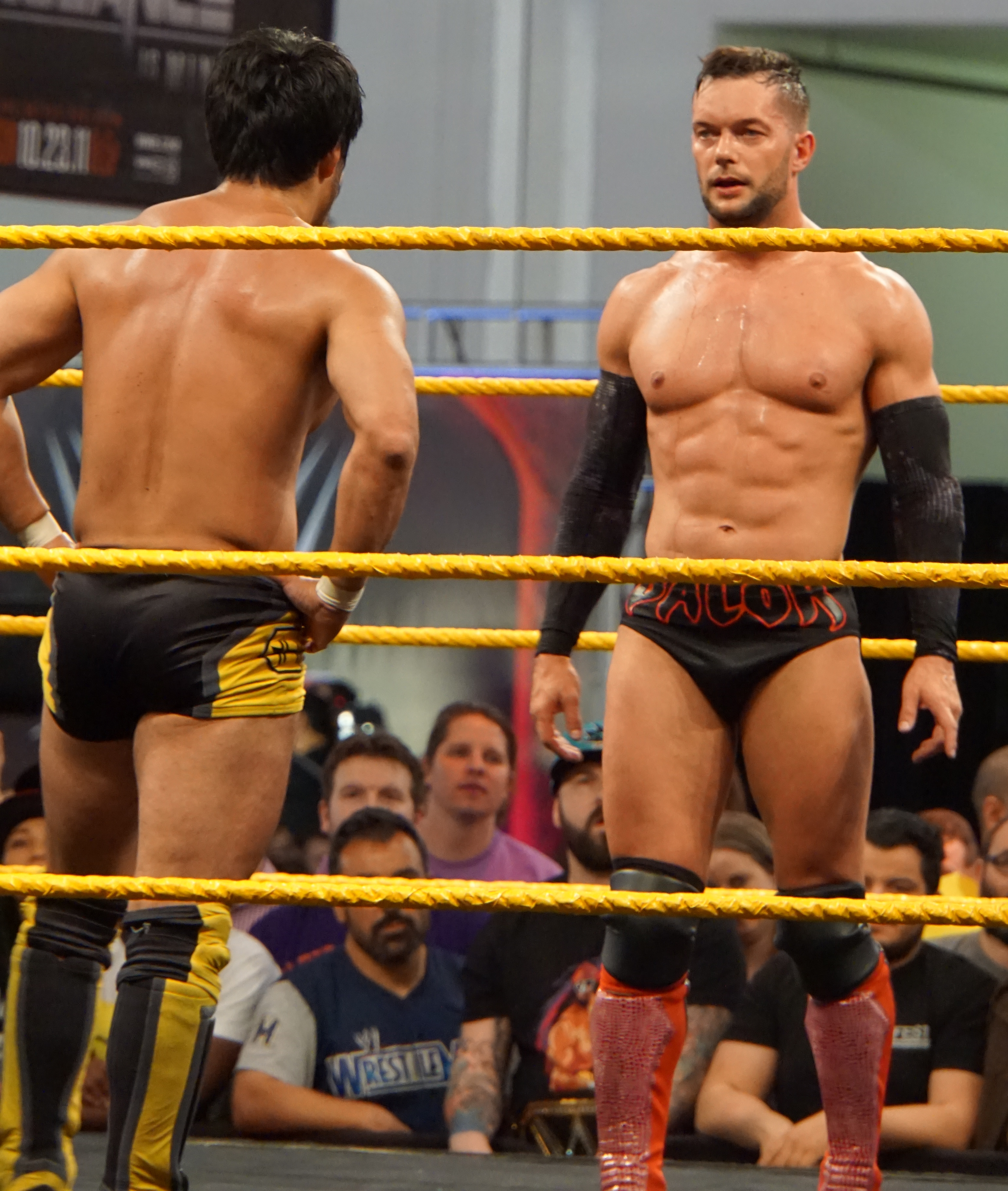 Finn Bálor and Hideo Itami at WrestleMania Axxess in March 2015.